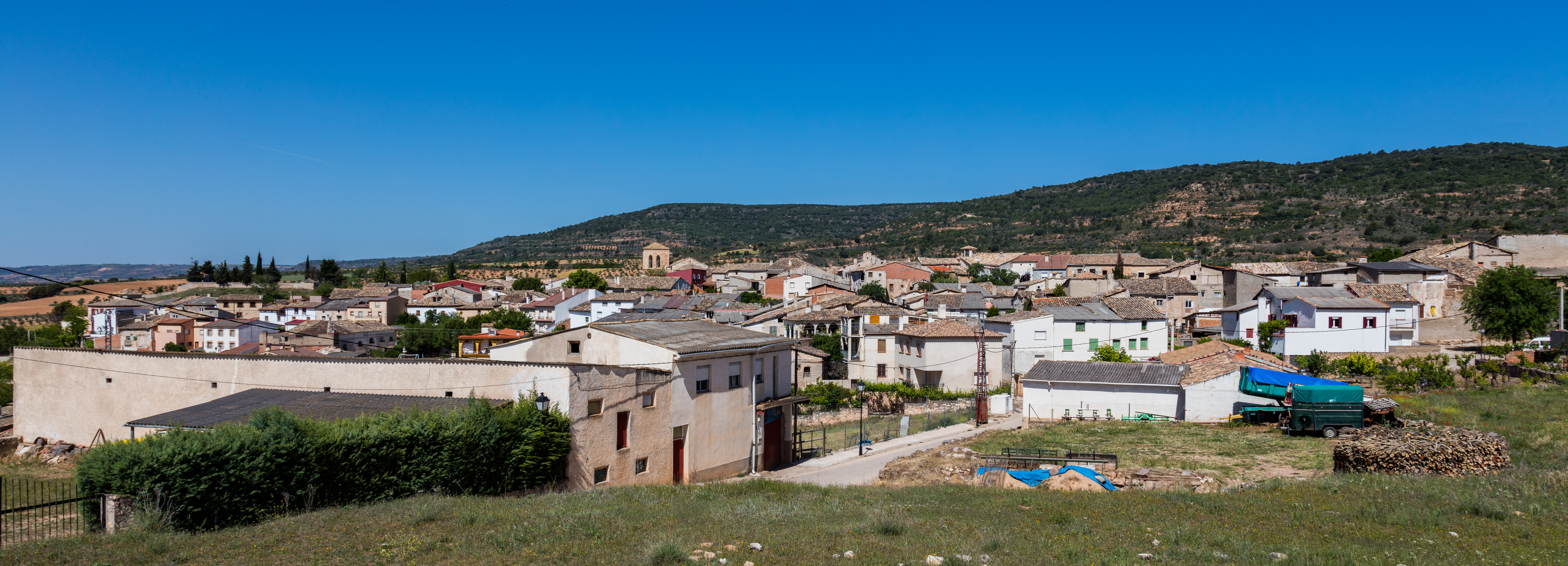 Salmerón, Guadalajara, Spain